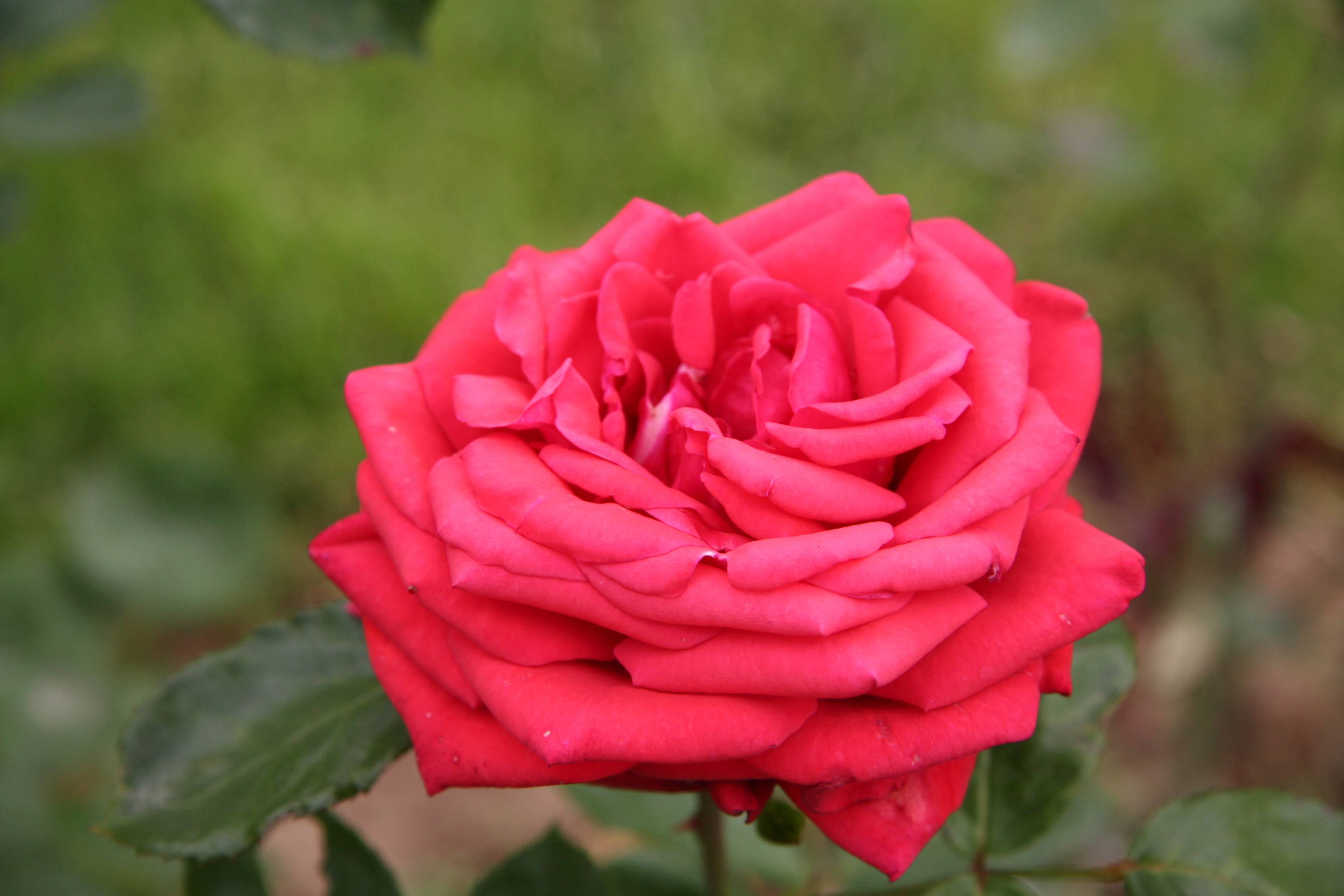 Baccara rose - Bagatelle Rose Garden (Paris, France).